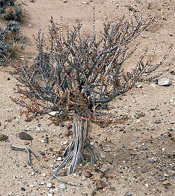 An aromatic shrub, known in its native southern Argentina as Tomillo de la Sierra. In context at